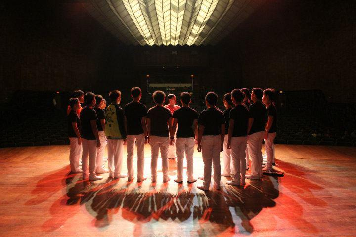 The Boscorale during their soundcheck at the Voices in Harmony 2011 Eliminations at the Philam Life Auditorium. Tagalog: Ang Boscorale sa gitna ng kanilang soundcheck noong Eliminasyon ng Voices in Harmony 2011 sa Philam Life Auditorium.